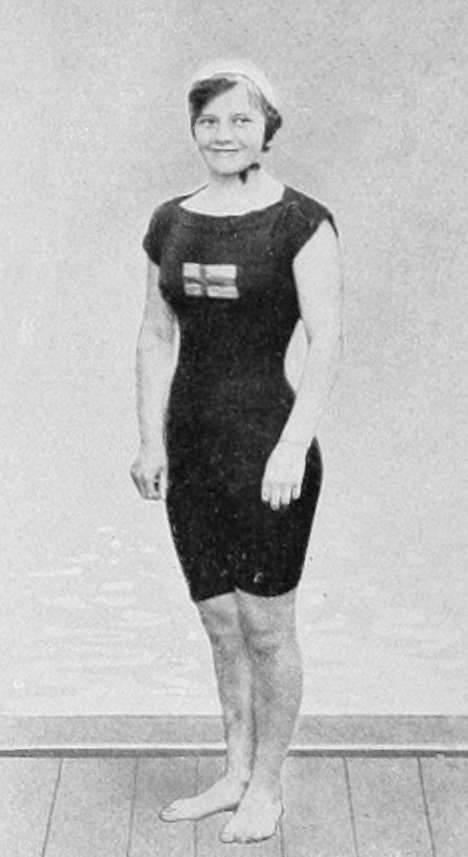 Greta Johansson at the 1912 Summer Olympics